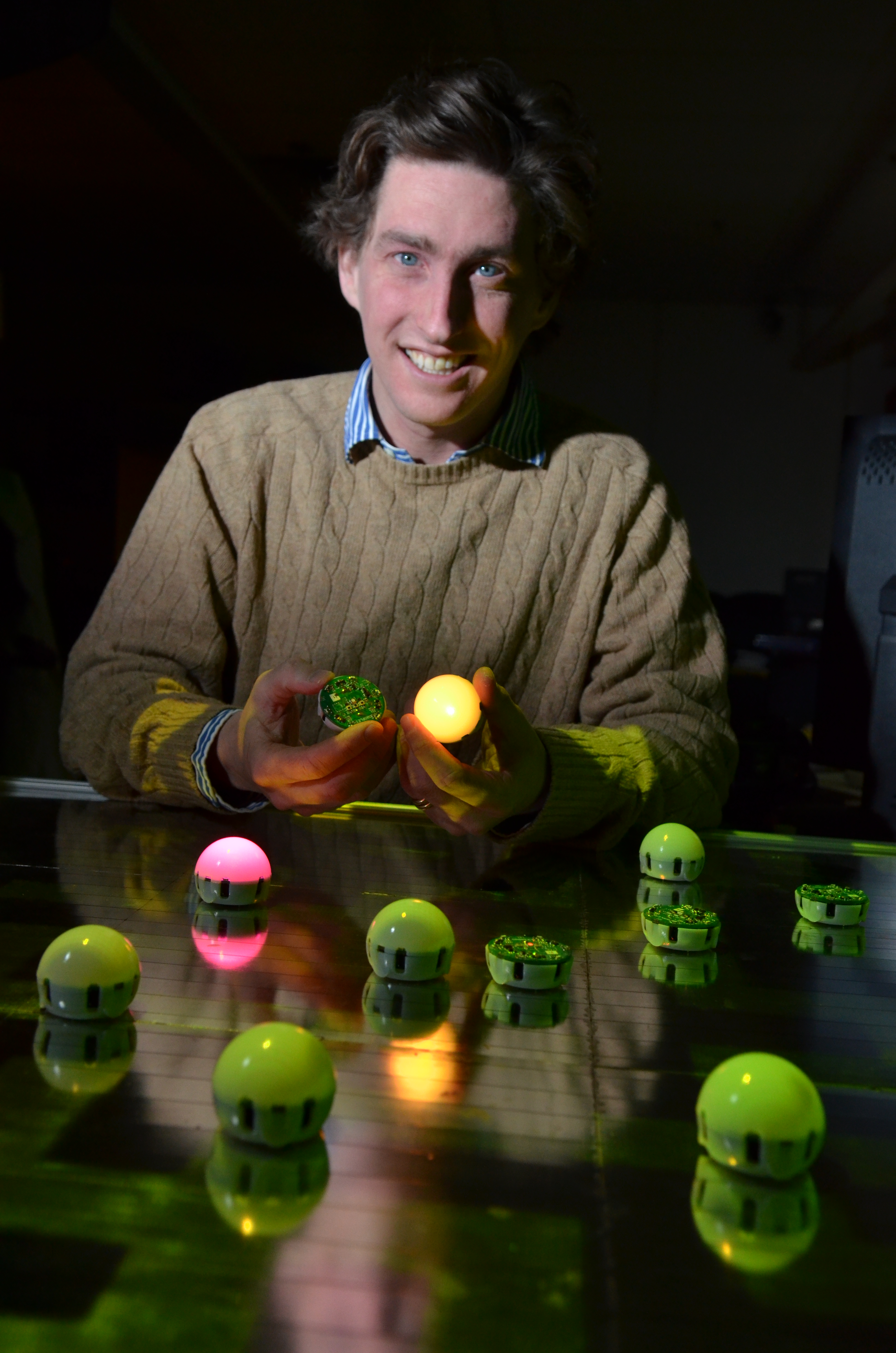 A team, under the direction of Assistant Professor Nicolaus Correll, is developing a swarm of ping-pong ball sized robots at the University of Colorado Boulder. The robots work in tandem with each other to solve tasks. (Photo by Casey A. Cass/University of Colorado)